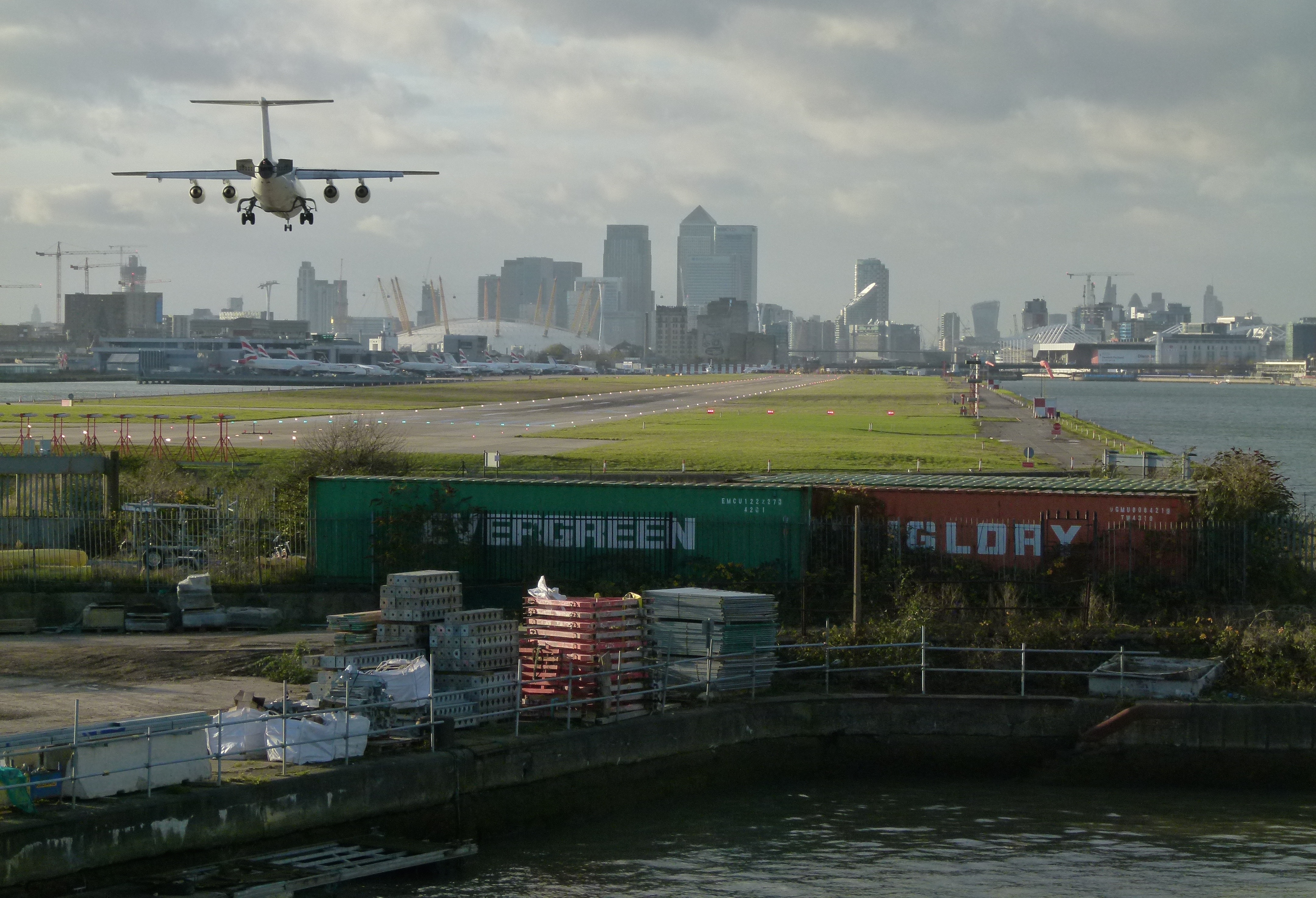 View from Sir Steve Redgrave Bridge of Royal Albert Dock, London City Airport and London Docklands skyline, London Borough of Newham, London.